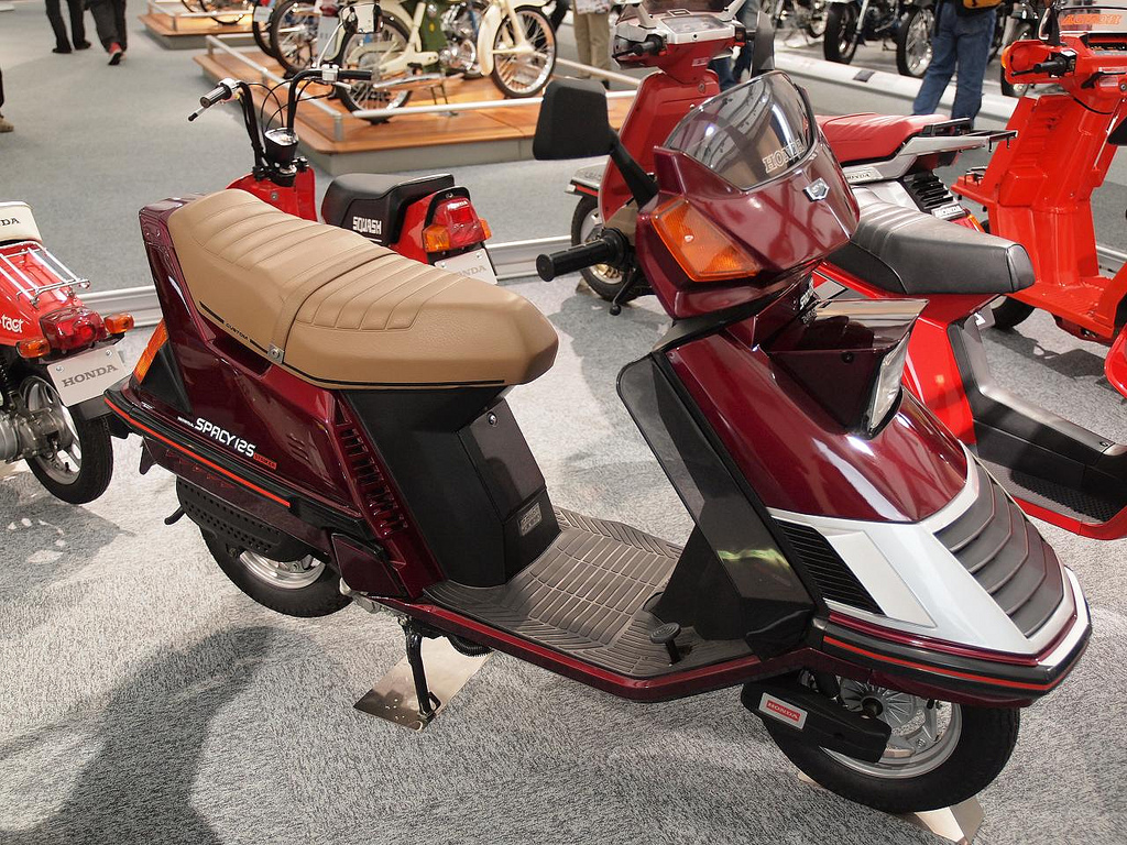 Honda Spacy125 Striker in Honda Collection Hall, JAPAN. 2 Oct 2011.